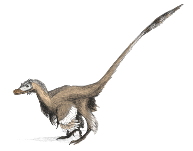 Digital + graphite drawing of Velociraptor mongoliensis